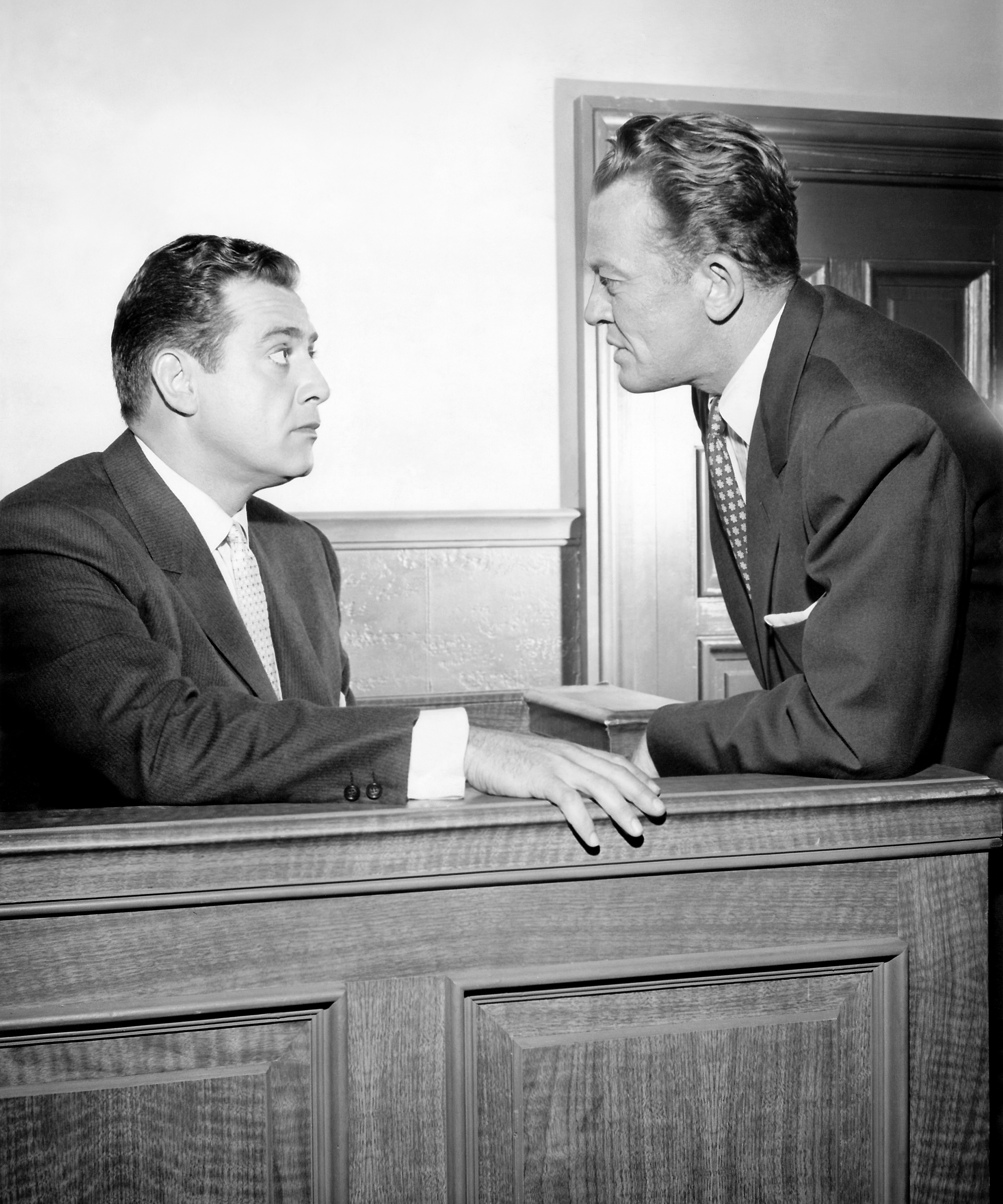 Photograph of Raymond Burr and William Talman the CBS-TV series Perry Mason